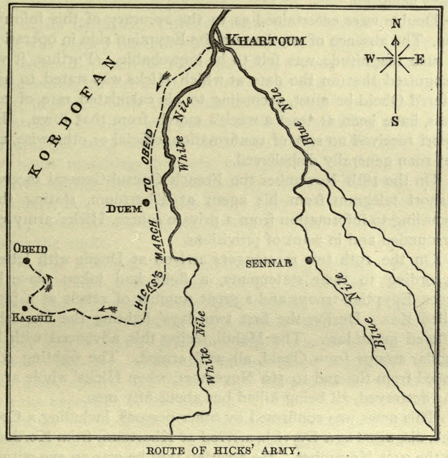 Route of Hicks' Kordofan Expedition from Khartoum to Obeid 1883.